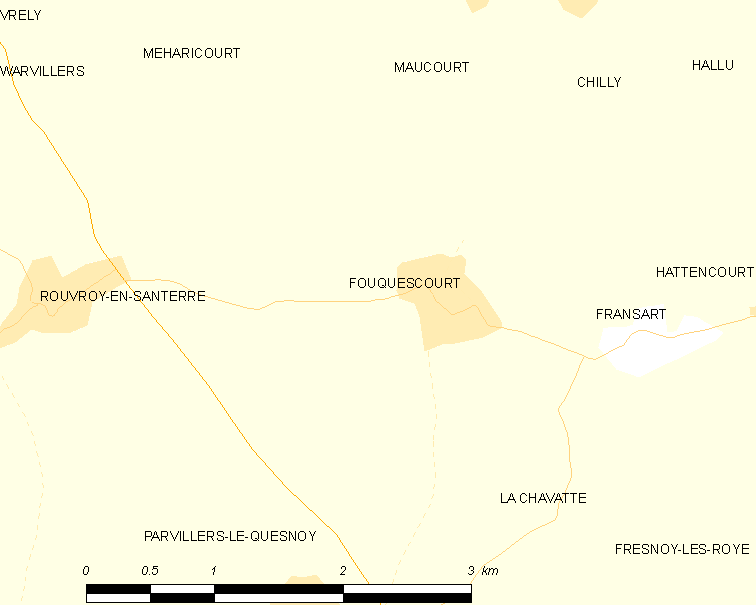 Map of French municipality Fouquescourt